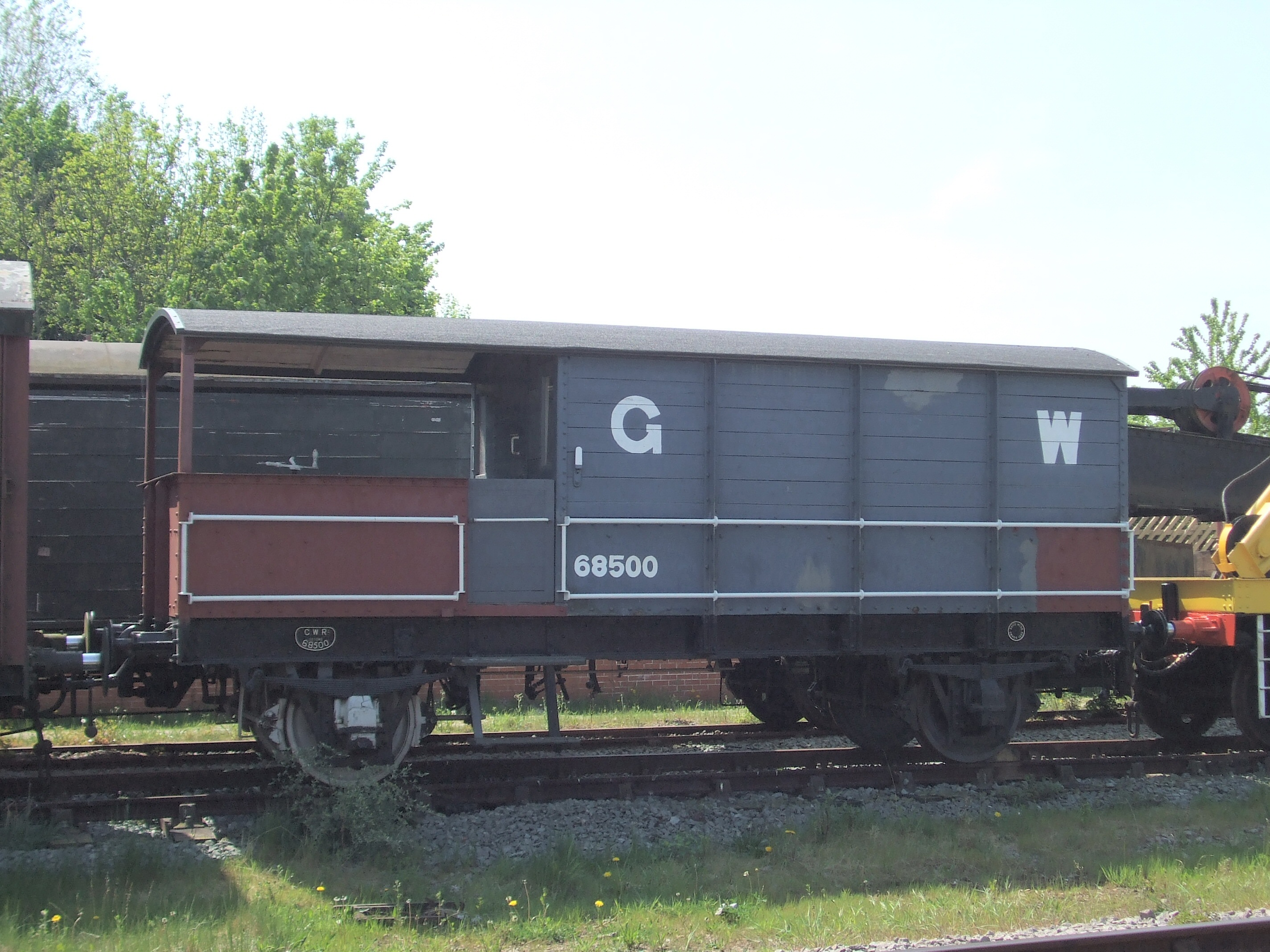 GWR Toad Brake Van awaiting finishing